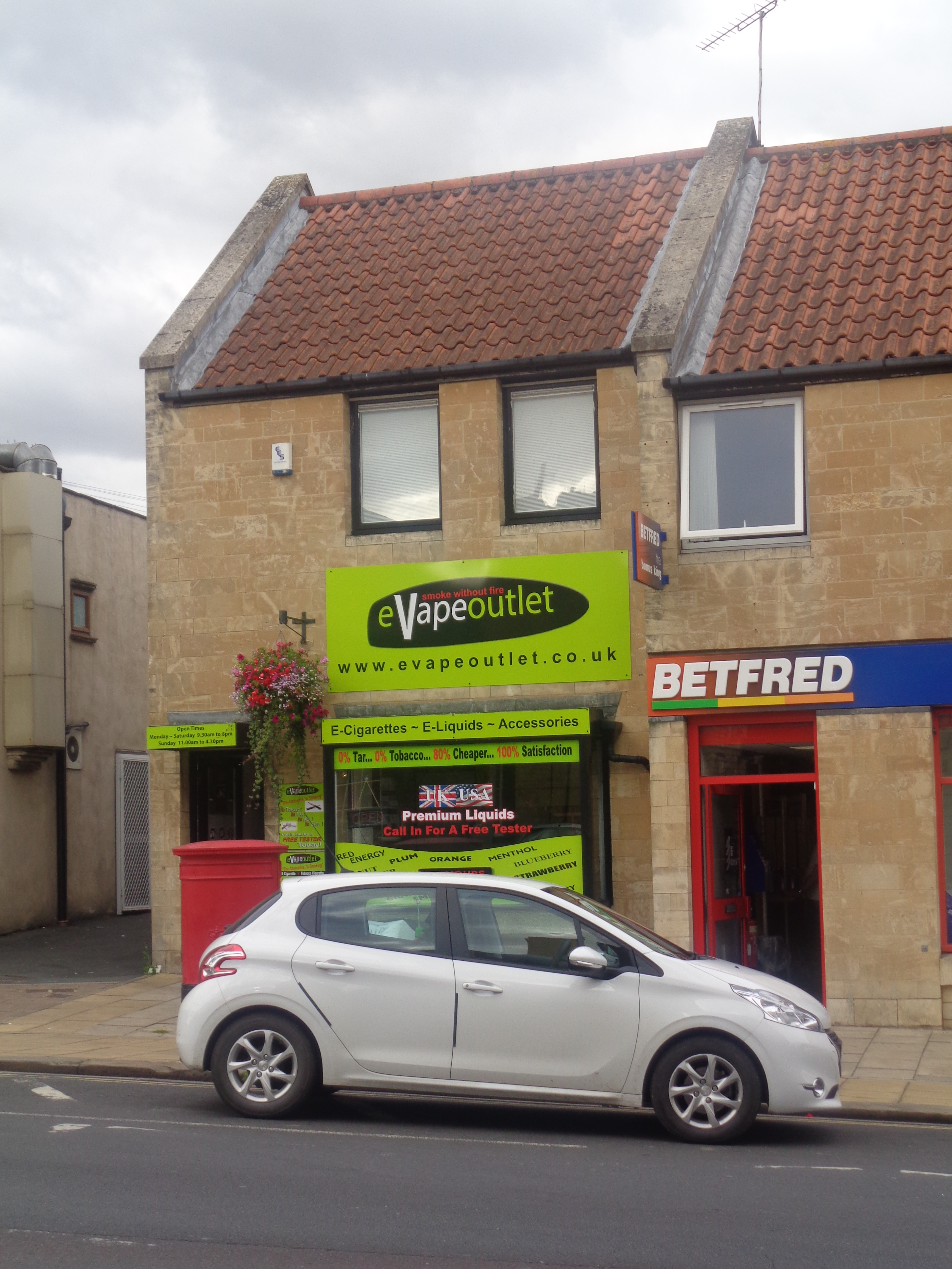 Evapeoutlet, Market Place, Wetherby, West Yorkshire. This is the second e-cigarette shop to open in Wetherby in 2015, in what seems like a surge in 'vaping'. Taken on the evening of Monday the 3rd of August 2015.